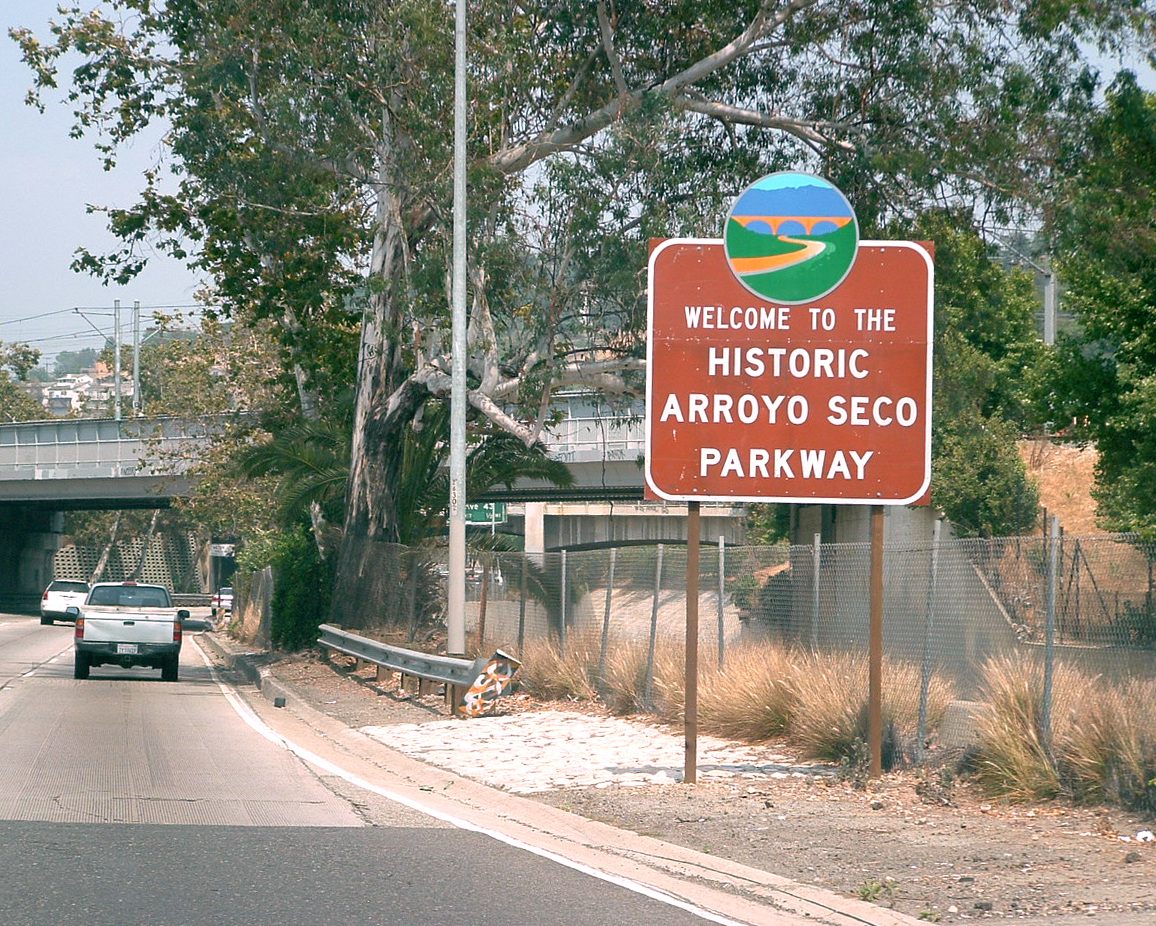 sign on CA 110: Welcome To The Historic Arryo Seco Parkway sign on CA 110: Welcome To The Historic Arryo Seco Parkway